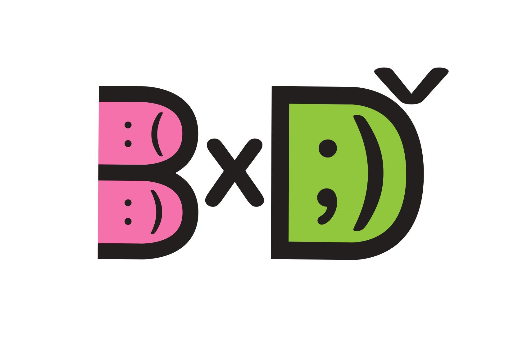 A logo of the Festival of Slovak children's theatrical creativity "3xĎ". Srpski (latinica): Logo Smotre slovačkog dečijeg pozorišnog stvaralaštva "3xĎ".